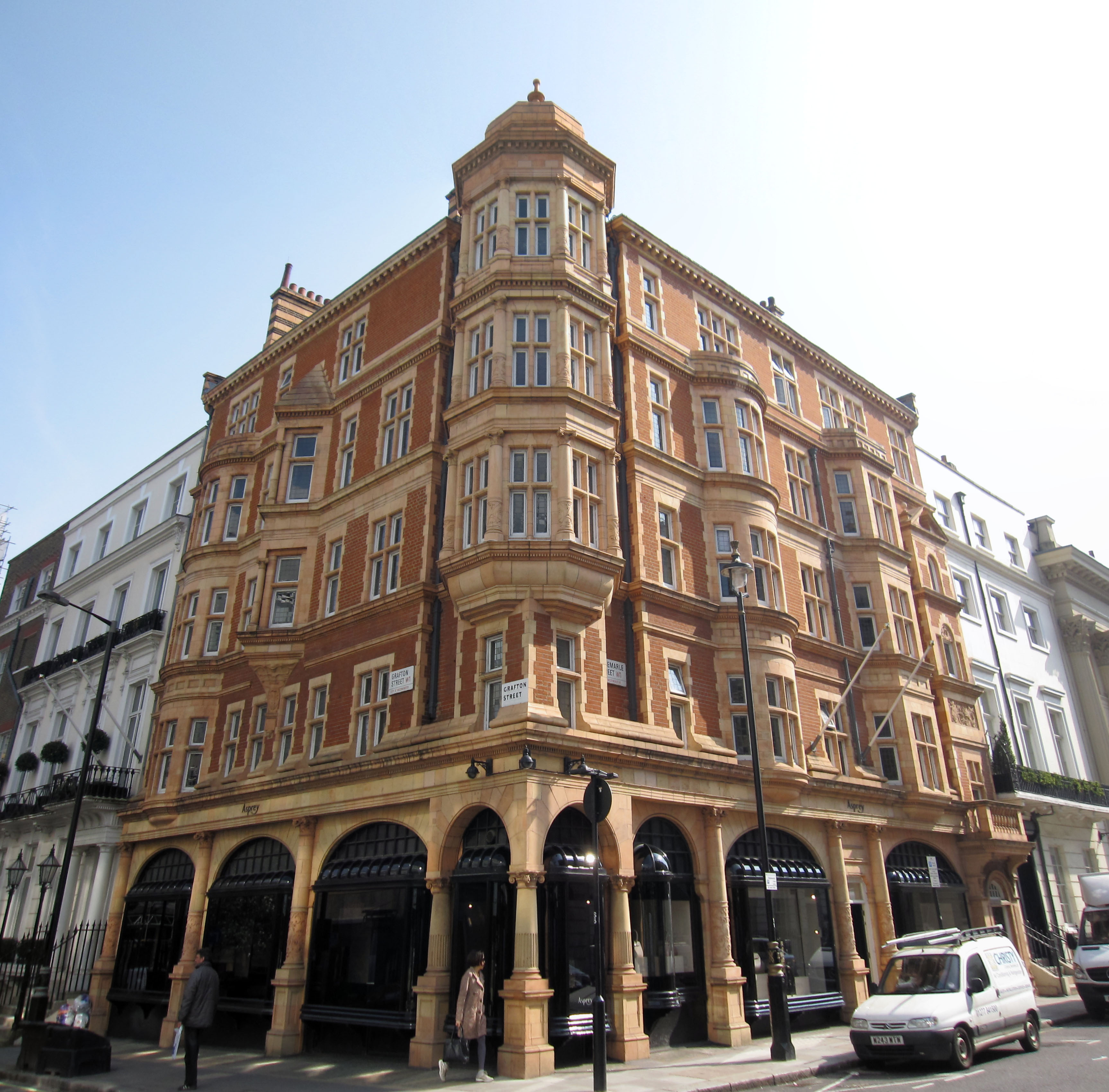 Asprey in London